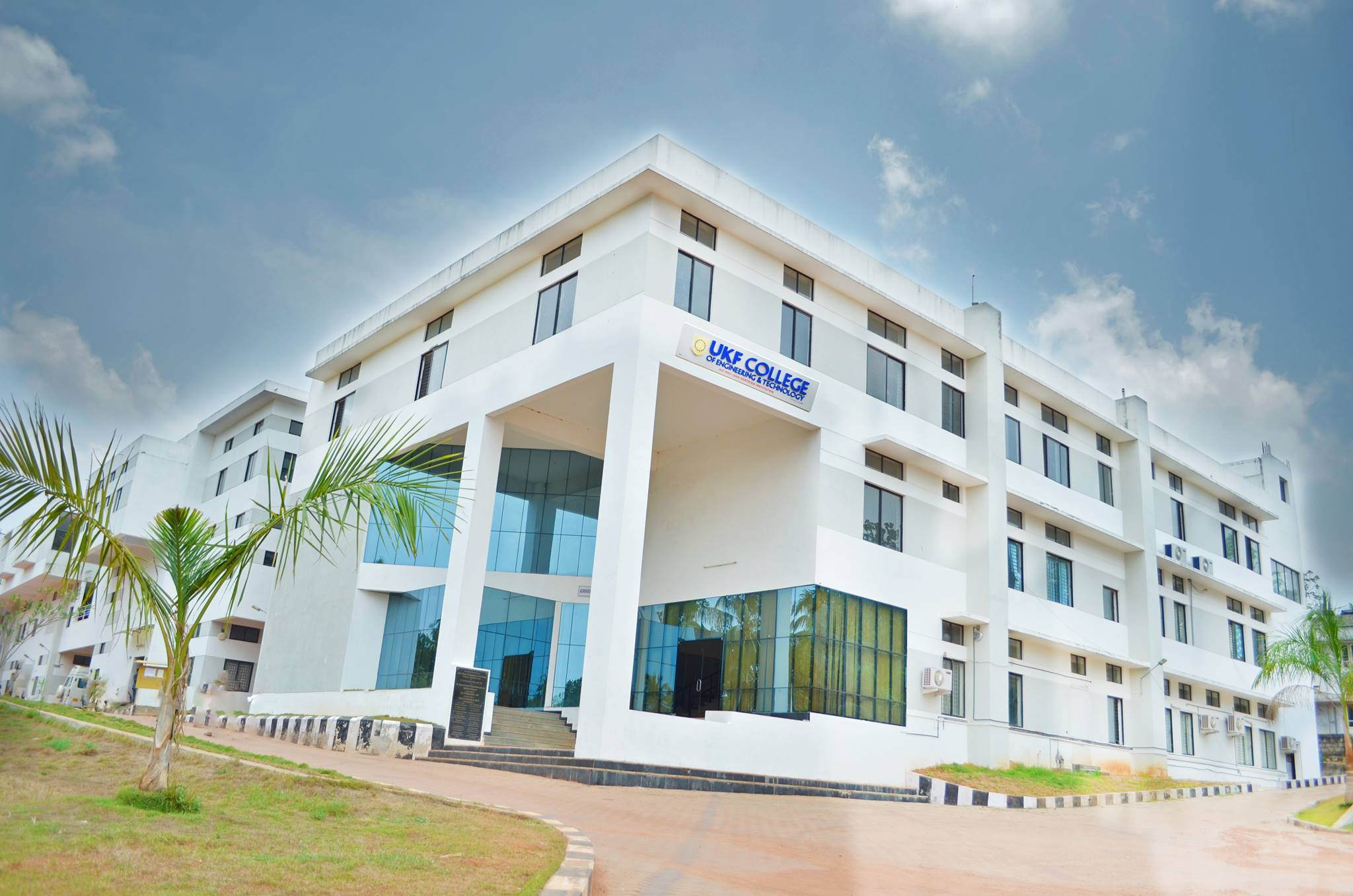 college